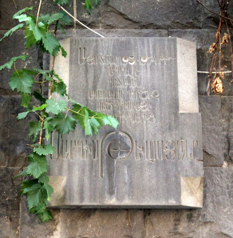 Sargis Tevosyan plaque